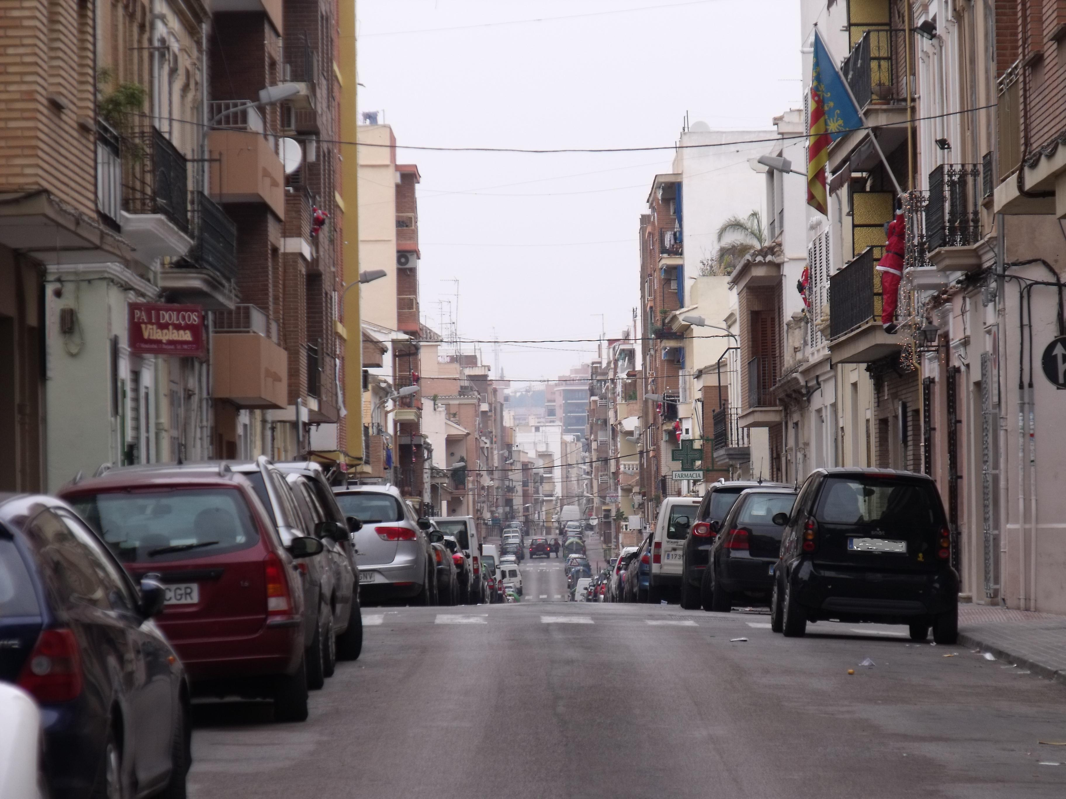 Mendizábal street. Burjassot, Spain.